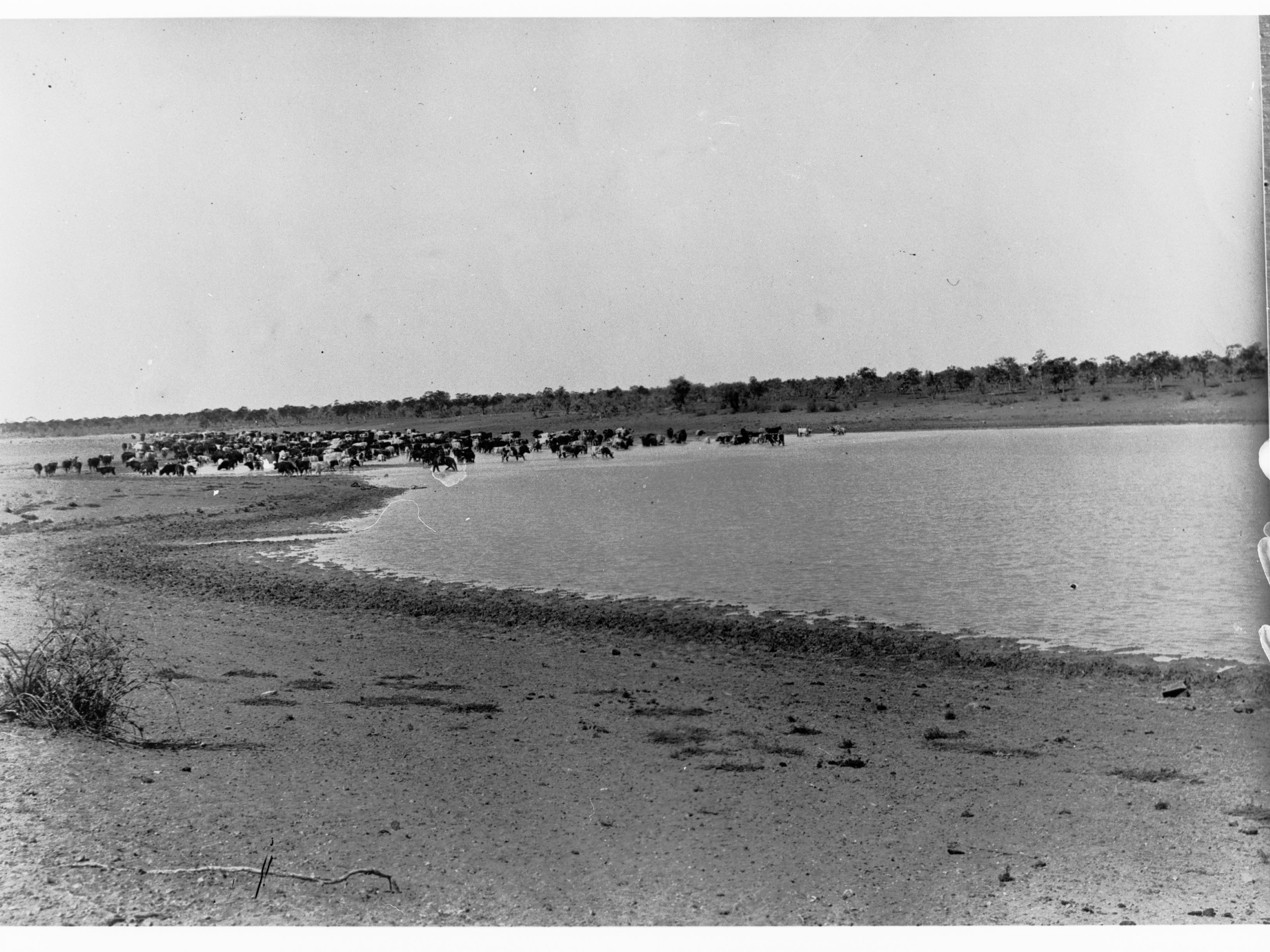 See also GN02701 (G Brooks)